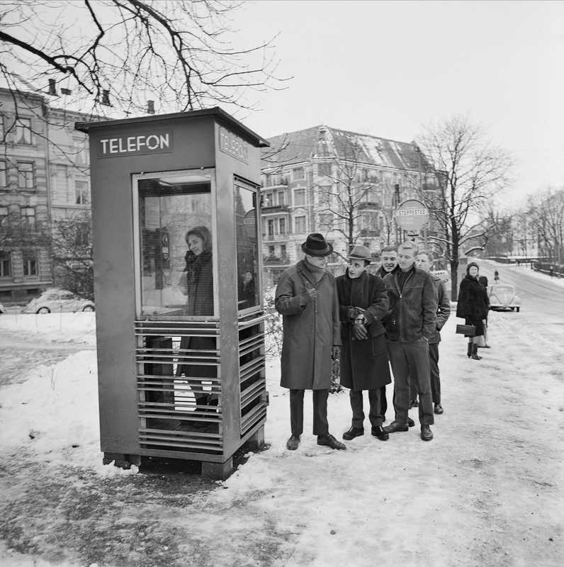 Telephone booth Norway 1965Norsk bokmål: Johnny Bergh (med hatt) Nandor Hamza (viser klokken) og Stein Roger Bull (hendene i bukselommen). Fotografert i forbindelse med fjernsynsproduksjonen "Kunden har alltid rett".